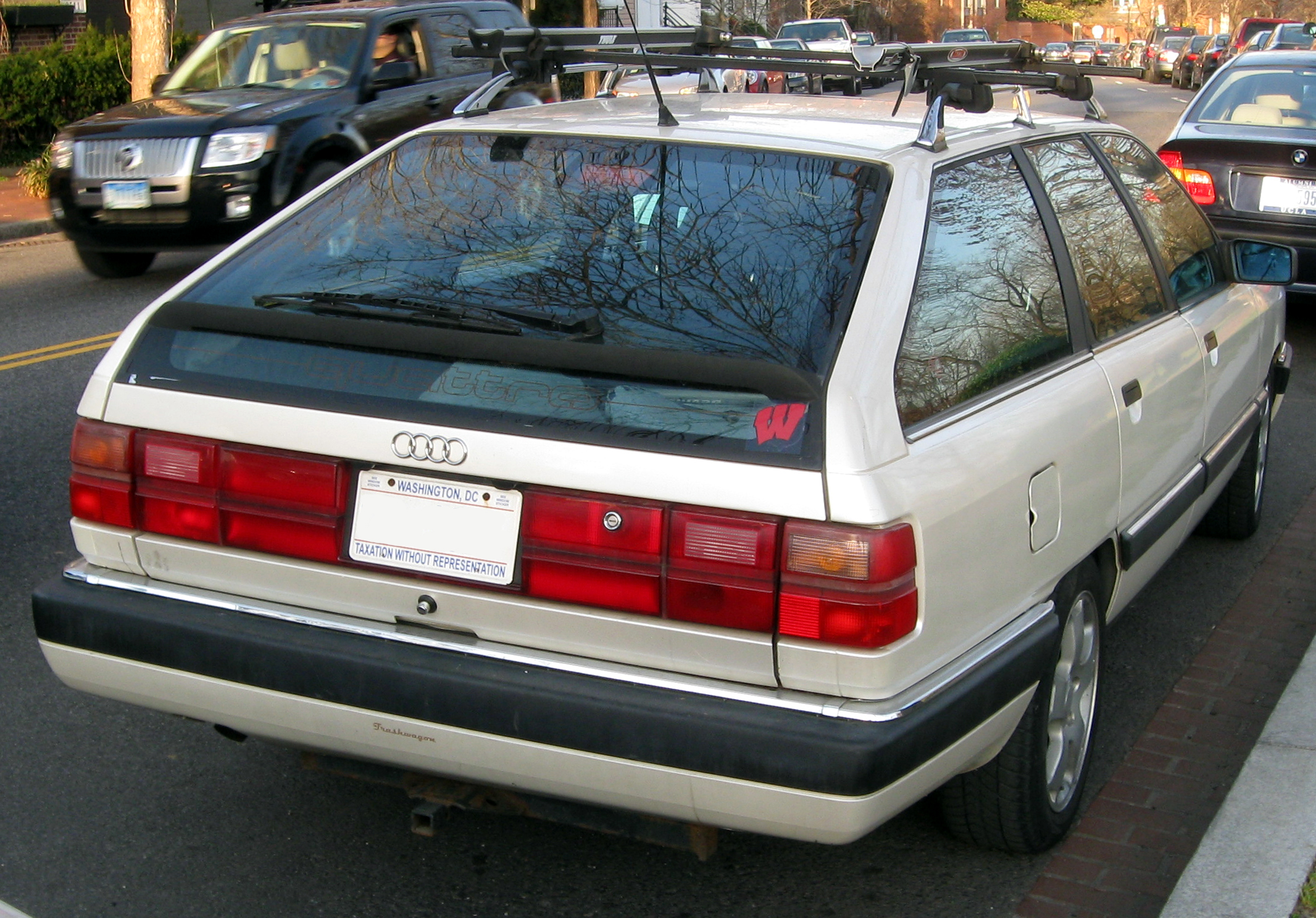 Audi 200 photographed in Washington, D.C., USA.